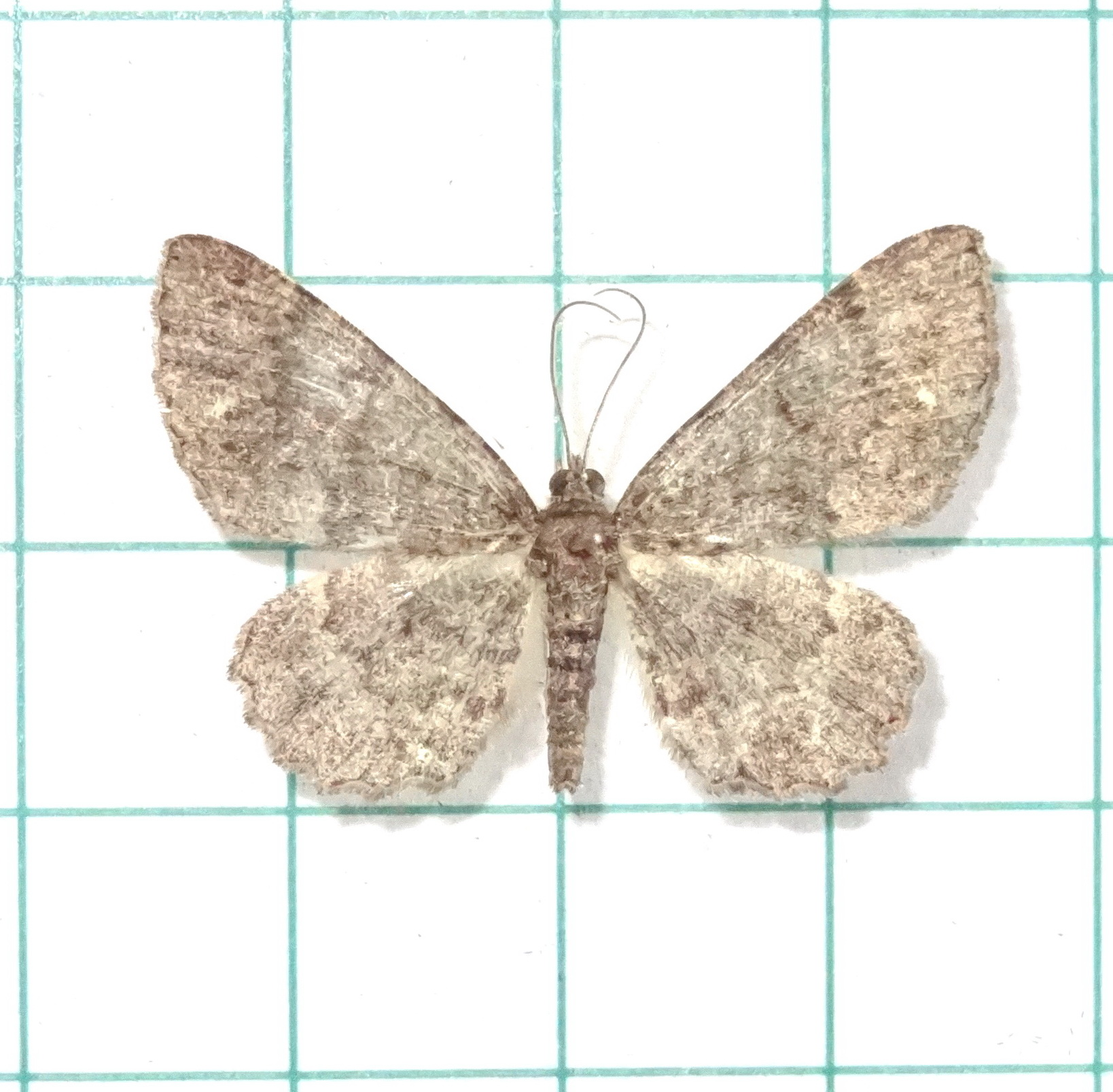 23,XII.2013 臺灣 南投 信義 望鄉 海拔2,300m Wangxiang, Xinyi, Nantou,Taiwan Alt.2,300m 枝尺蛾亞科 Ennominae 尺蛾科Geometridae 參考：鞍馬山的蛾1,p.29 Reference: Moths of Anmashan Part 1, p.29 Found in Jun. & Dec. 1 cm per square